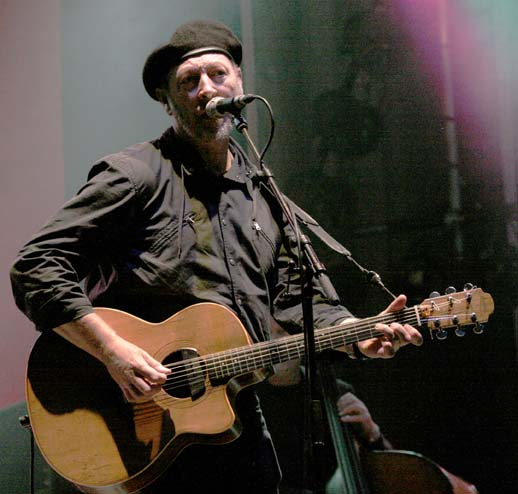 Richard Thompson at Cropredy Festival, 2005